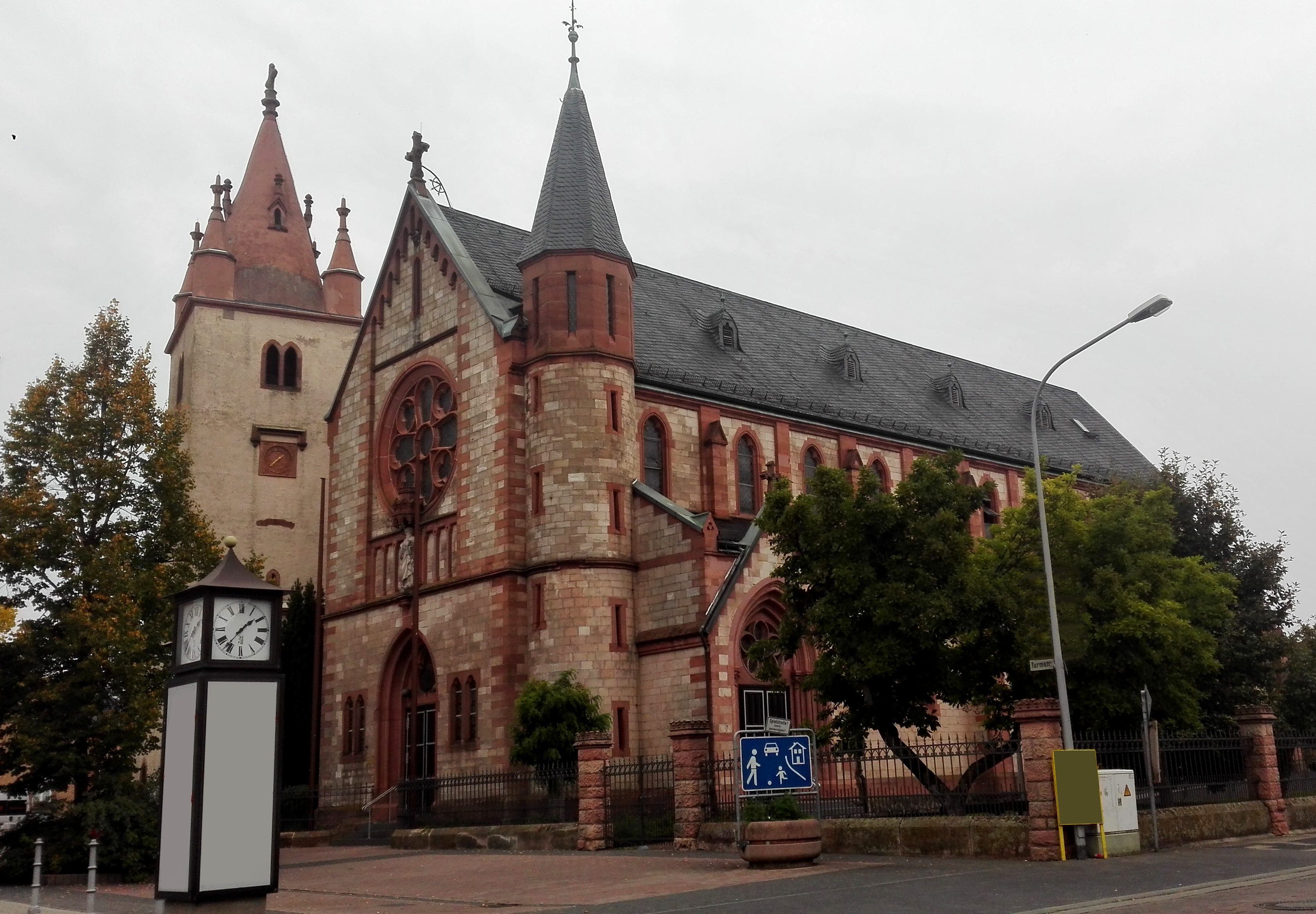 Parish Church St. Matthew in Rodgau-Nieder-Roden from its southside